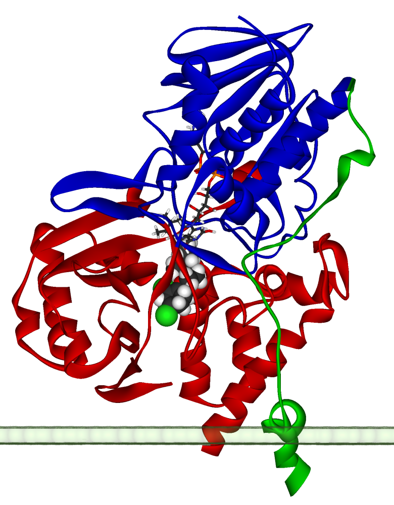 Ribbon diagram of a monomer of human monoamine oxidase A, with FAD and clorgiline bound, oriented as if attached to the outer membrane of a mitochondrion.Created using Accelrys DS Visualizer Pro 1.6 and GIMP.